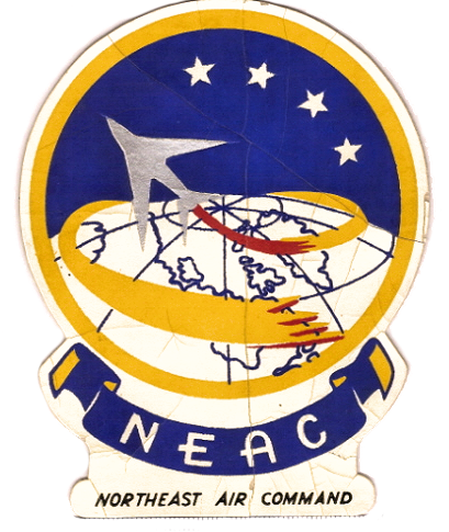 Emblem of the USAF Northeast Air Command